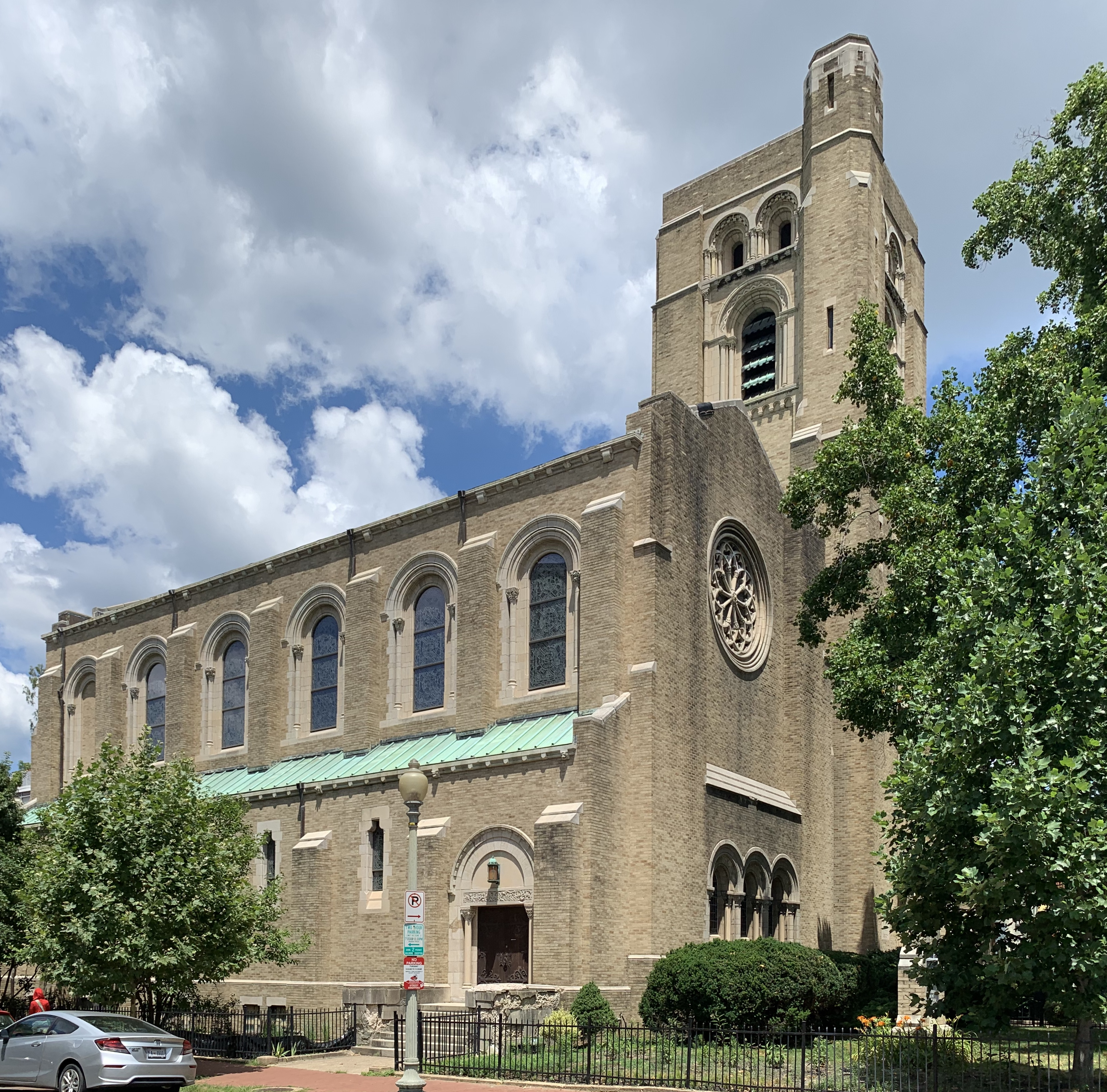 The Universalist National Memorial Church located at 1810 16th Street NW in Washington, D.C. The Romanesque Revival church was designed by Allen & Collens and completed in 1930. The building is a contributing property to the Sixteenth Street Historic District.